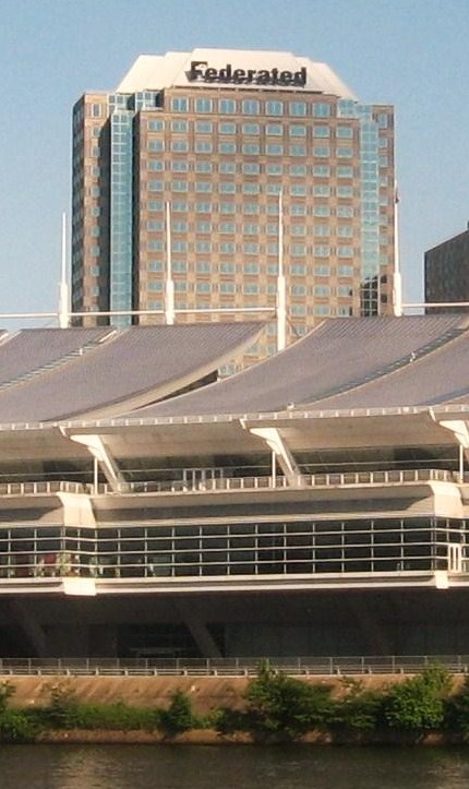 Federated Tower Pittsburgh PA